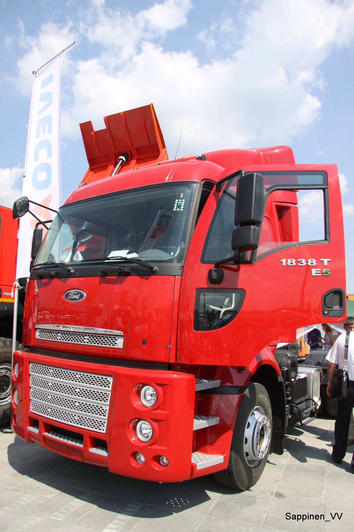 Innoprom 2012